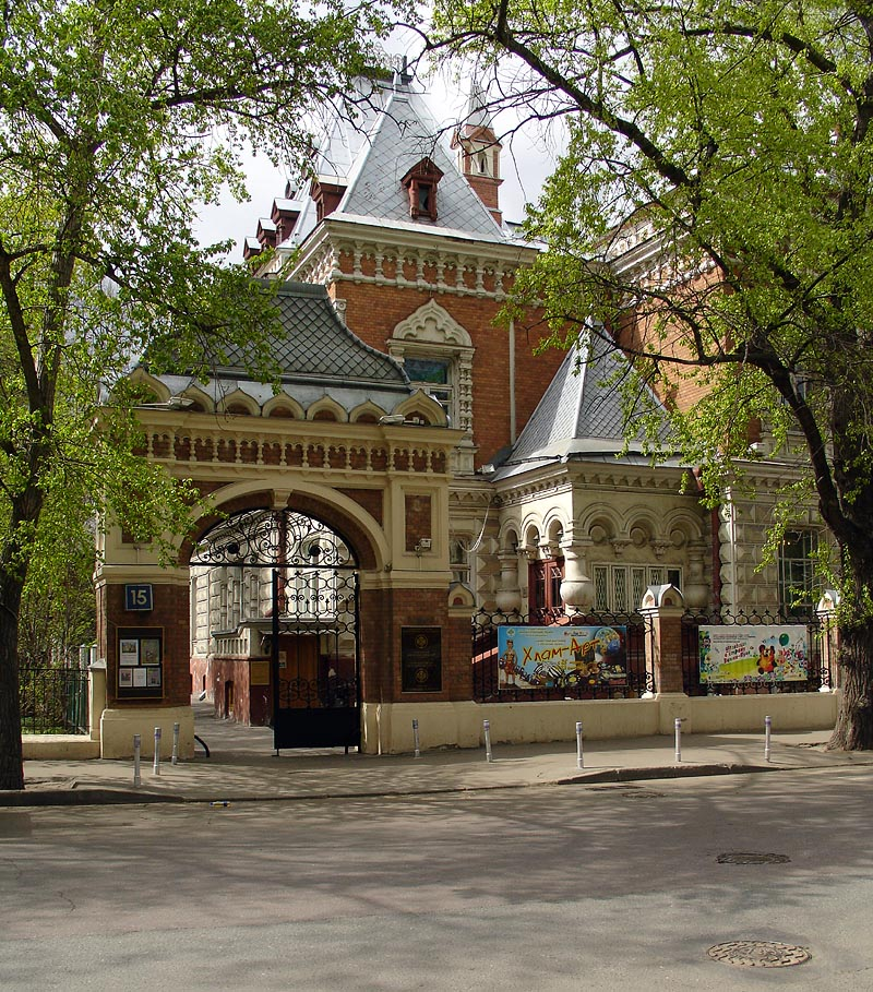 Timiryazev Museum, Moscow, new hall and gates as seen from the street